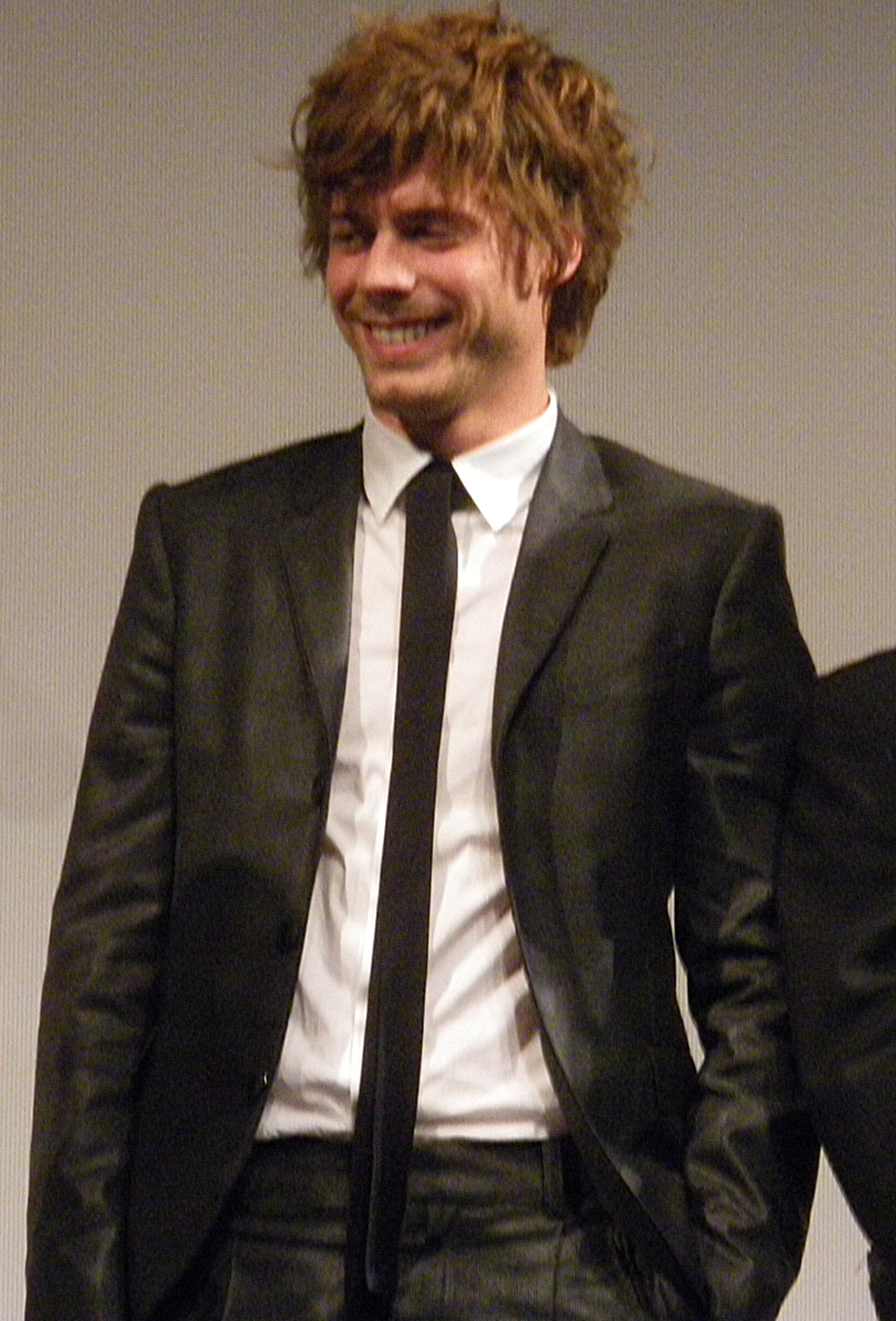 François Arnaud at the Isabel Bader Theatre for one of the 2009 Toronto International Film Festival screenings of J'ai tué ma mère.